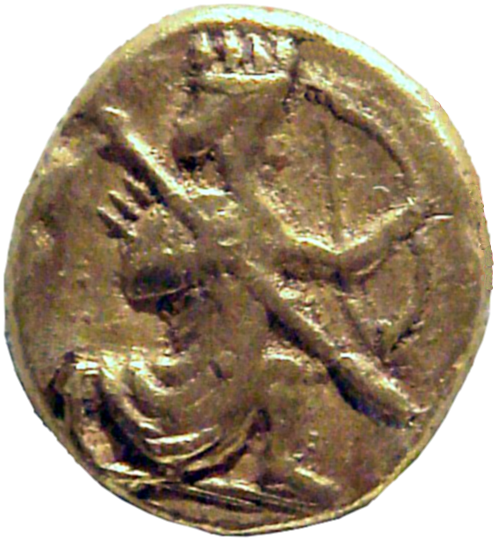 Achaemenid Daric 4th Century BC